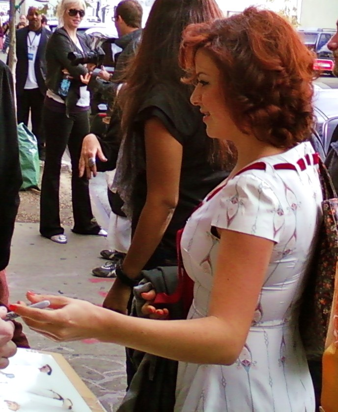 Alia Shawkat at the Arrested Development 2011 Reunion